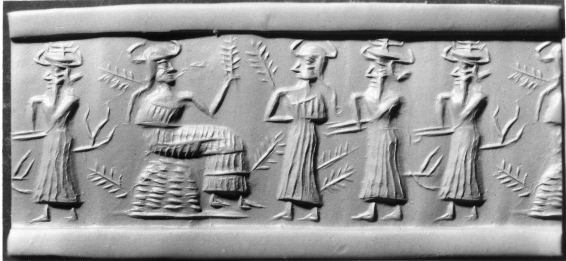 The variety of mythological scenes increased dramatically during the Akkadian period. In this seal, a seated vegetation goddess is greeted by three other deities. Stalks of grain sprout from the females, while tree branches grow from the two males, perhaps referring to a specific myth.